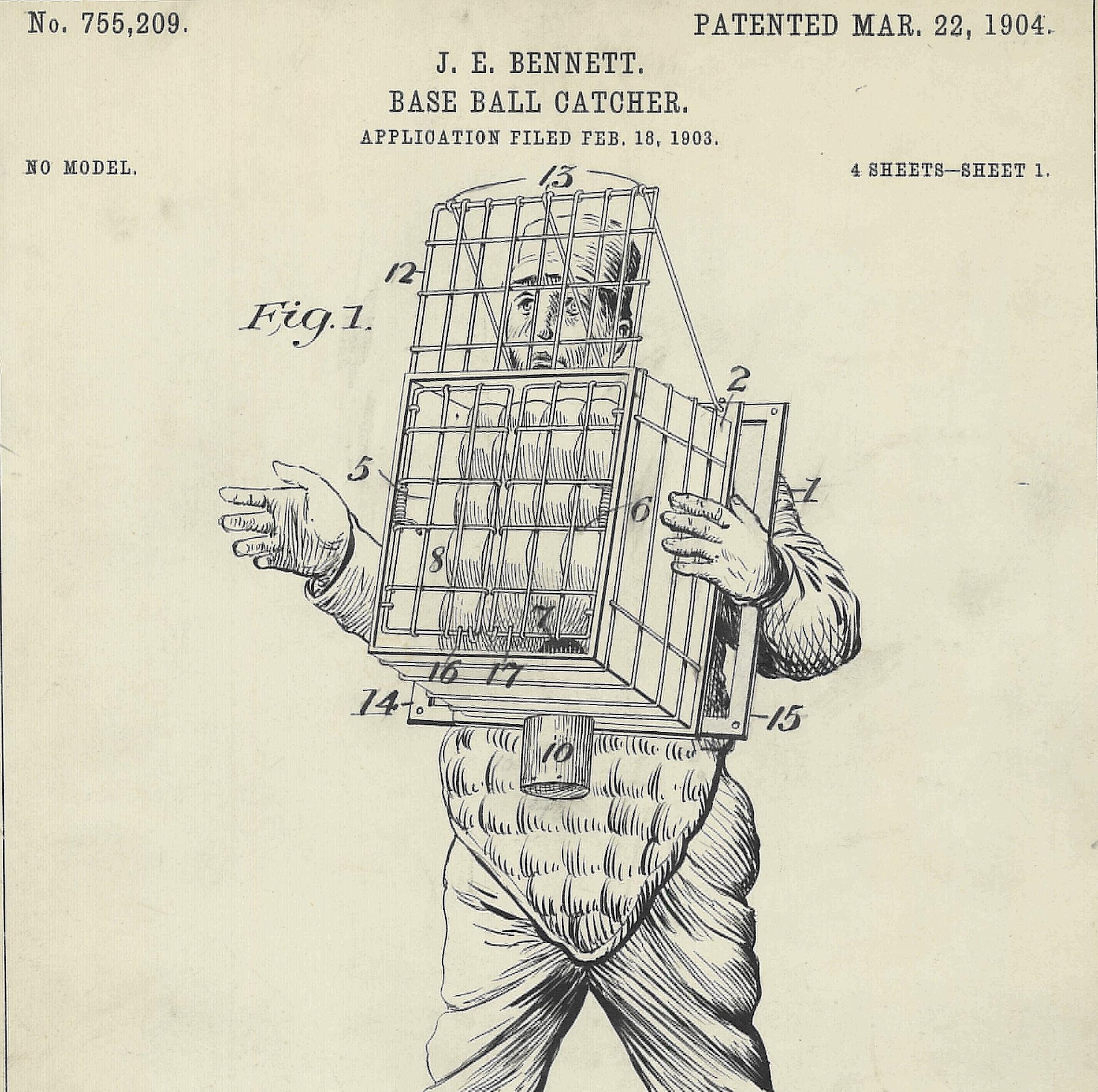 Illustration of 1904 patent for catcher protector (US Patent 755,209)